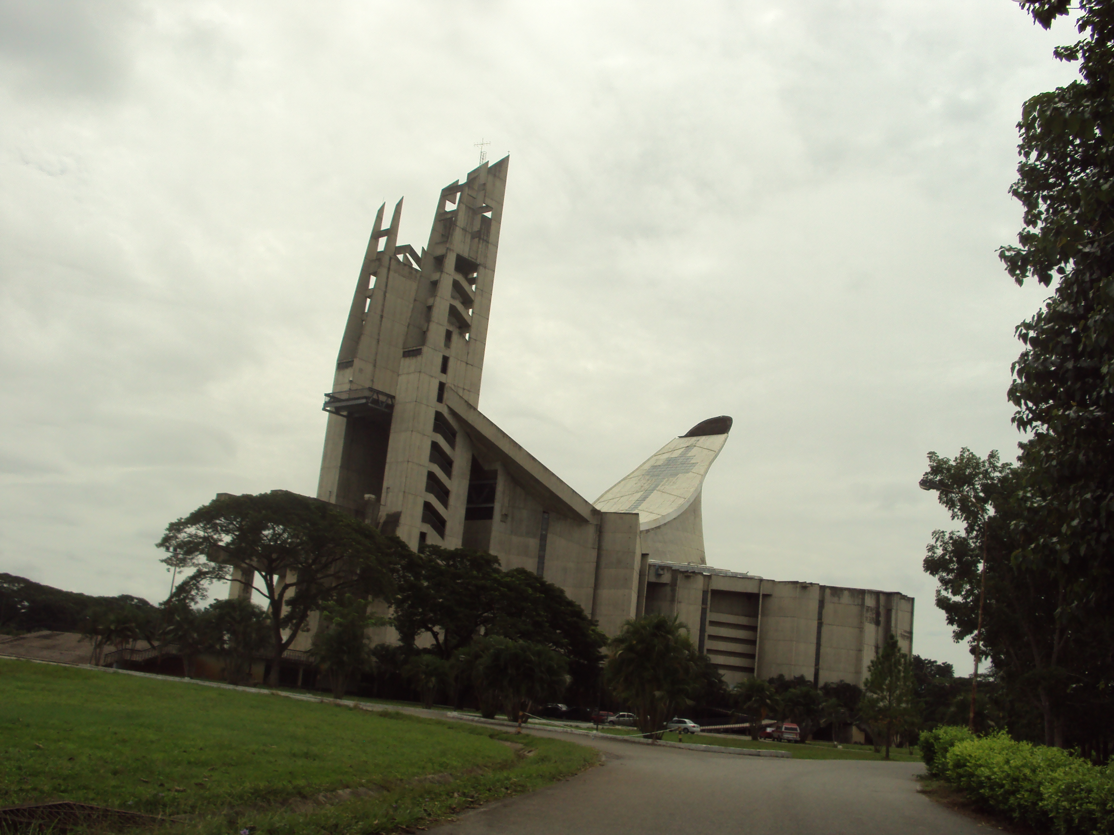 Venezuela